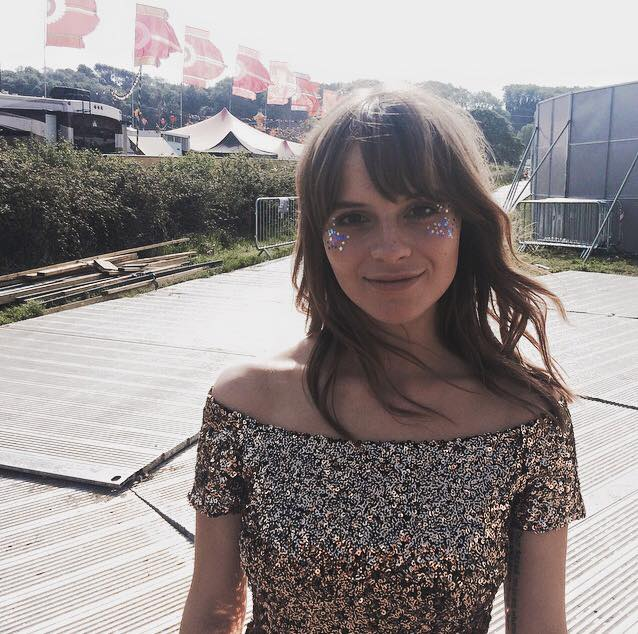 Gabrielle Aplin at Bestival Festival 2015